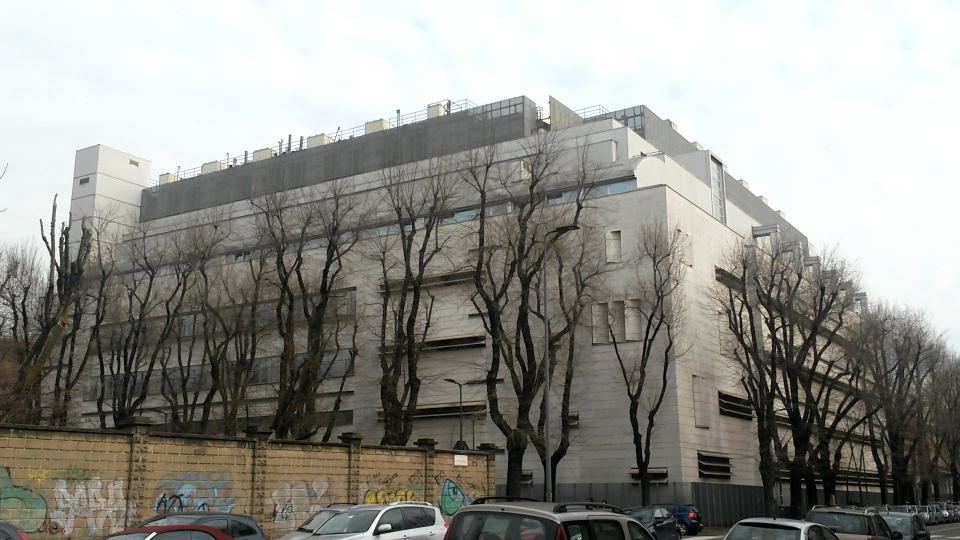 The main Building of the Pharmaceutical Sciences Departement - (disfarm) of UNIMI in Città Studi, Milano, Via Mangiagalli 25. Picture taken from via Mangiagalli